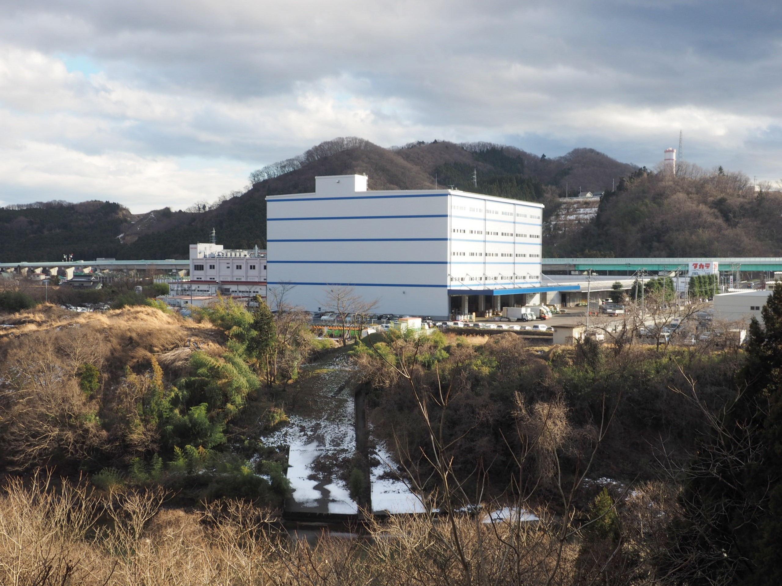 The Sendai branch office of Takara Standard Co., Ltd. Takadate-Kumanodo, Natori, Miyagi prefecture, Japan.